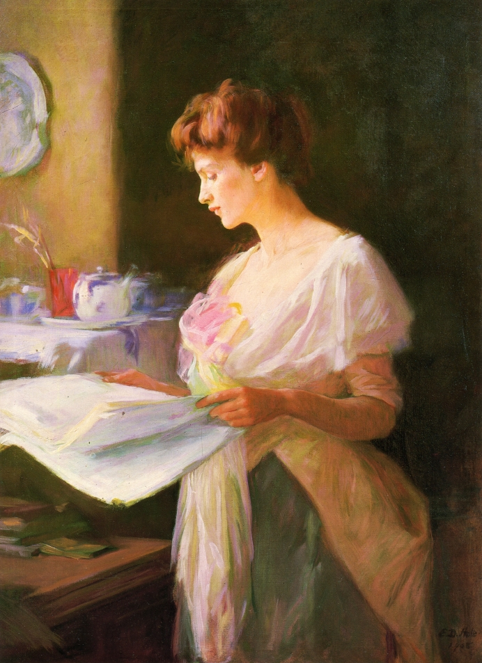 Morning News. Private collection. Painting - oil on canvas. Height: 127 cm (50 in.), Width: 91.44 cm (36 in.).